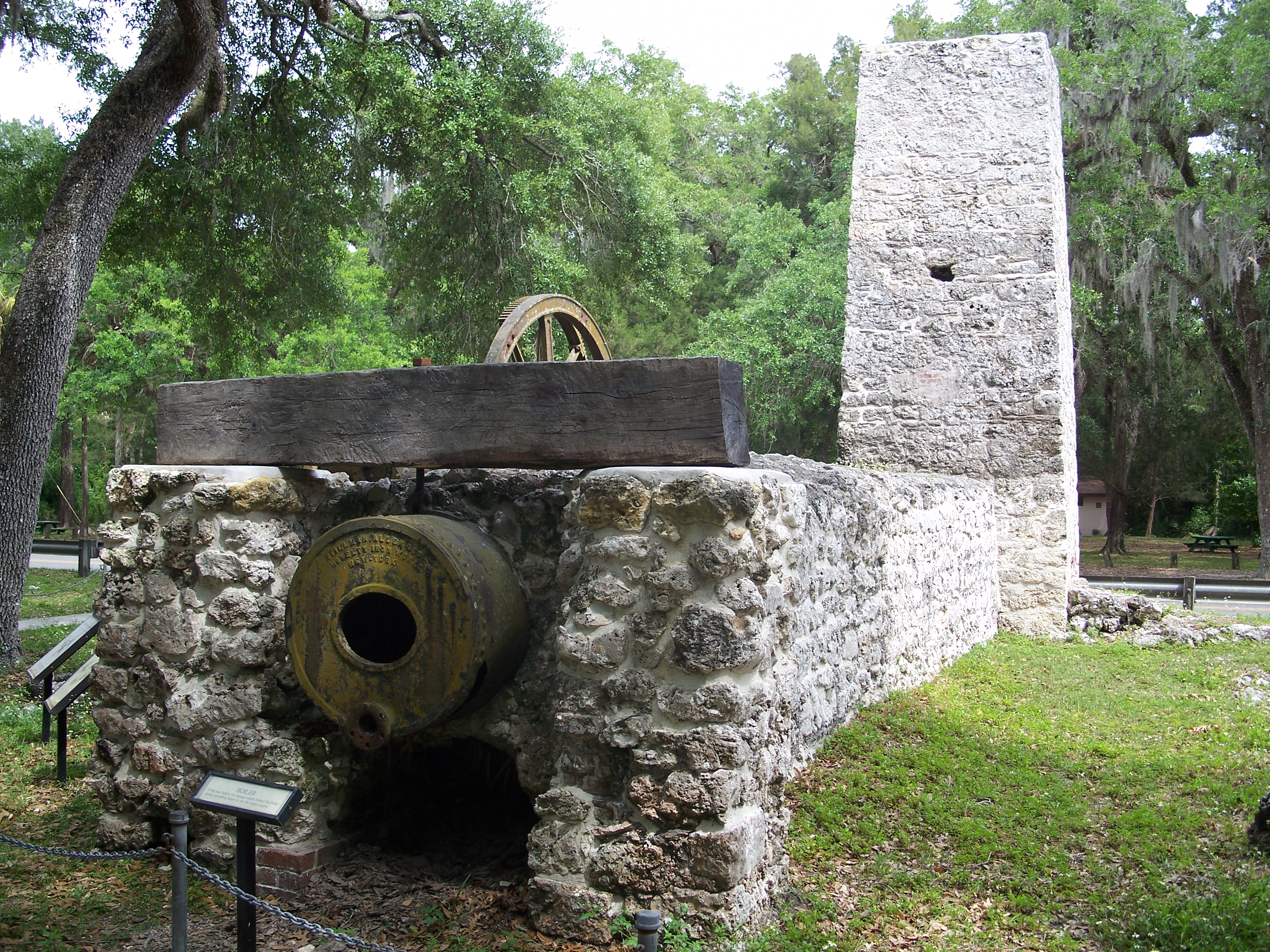 Yulee Sugar Mill Ruins in Homosassa, Florida. It is part of a Florida State Park, and on the National Register of Historic Places.